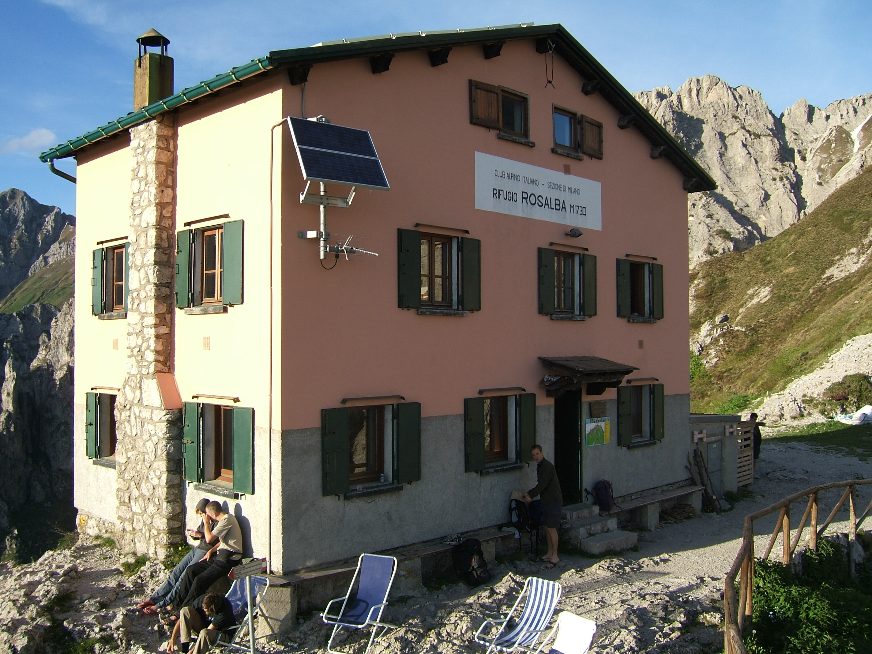 Rifugio Rosalba - Lombardy -Italy